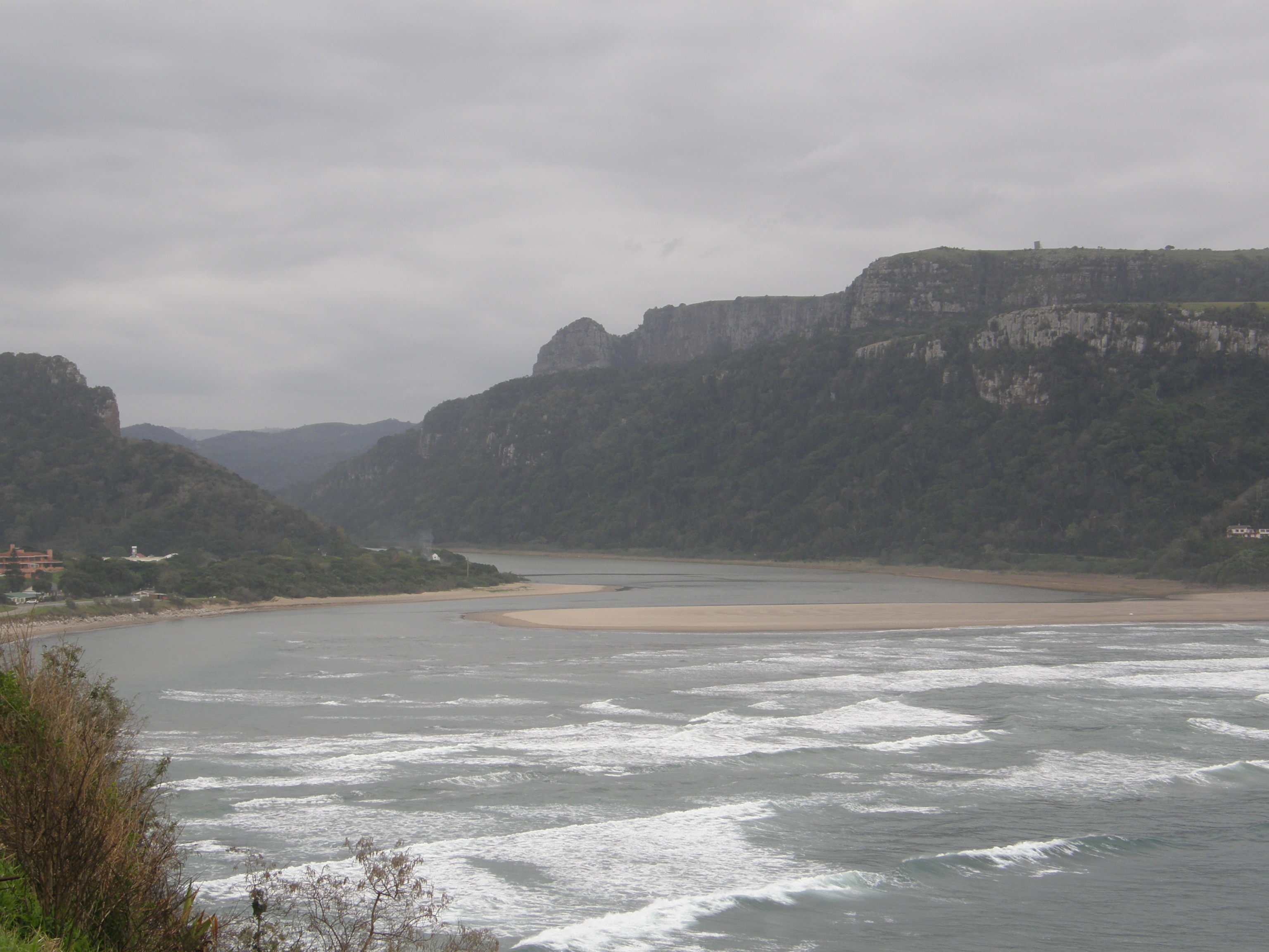 Port St Johns View from Lighthouse